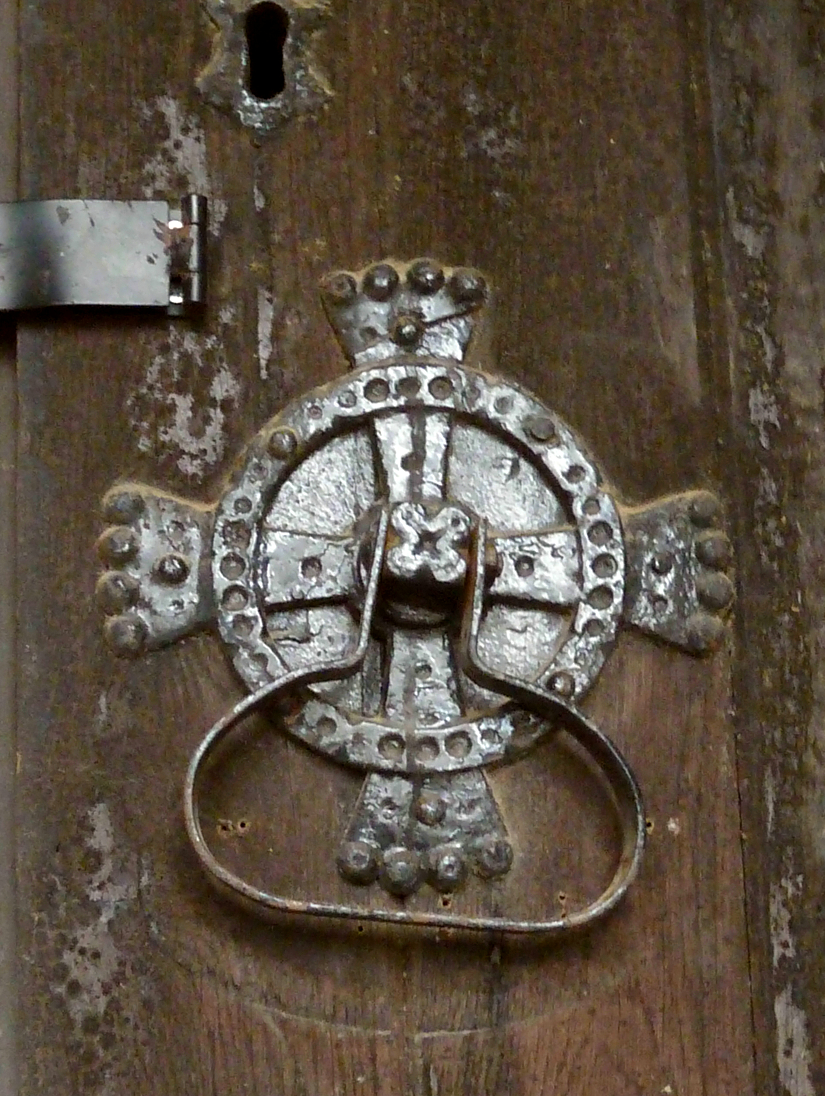 Handmade Arts and Crafts wrought iron door handle on church door in porch of Church of All Saints, Otley Road, Harlow Hill, Harrogate, North Yorkshire, England. It is the cemetery chapel in Harlow Hill Cemetery, and was designed in 1870 by architects Isaac Thomas Shutt and Alfred Hill Thompson. Furnishings such as this door handle were often designed and commissioned by the architect in the Arts and Crafts era.